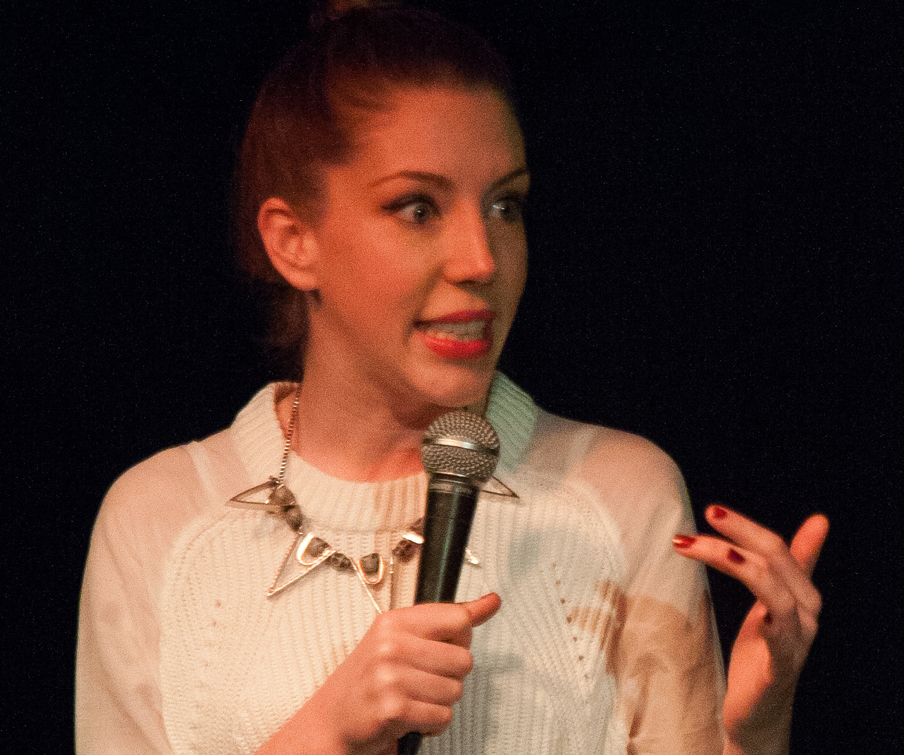 English